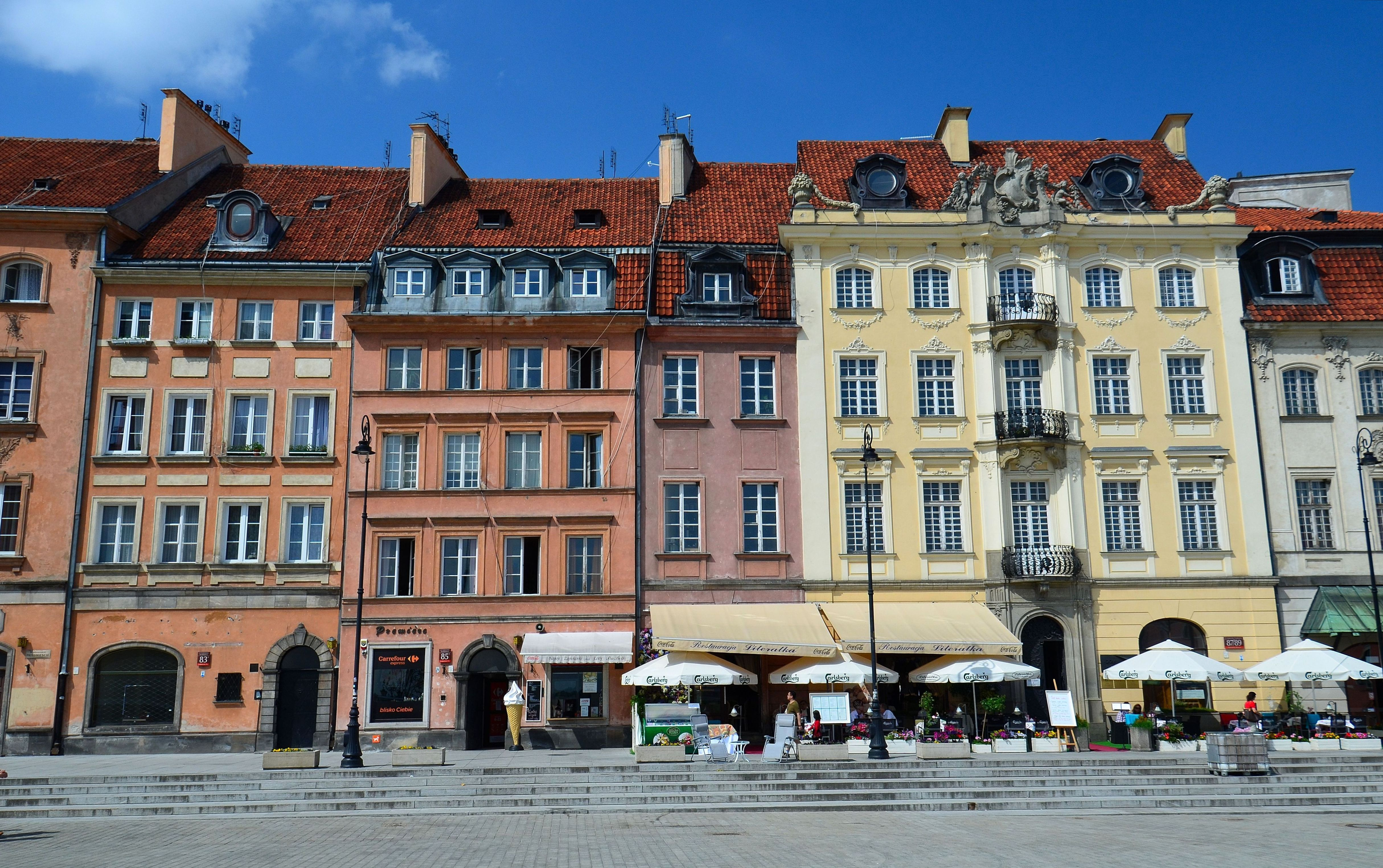 Krakowskie Przedmieście Street in Warsaw